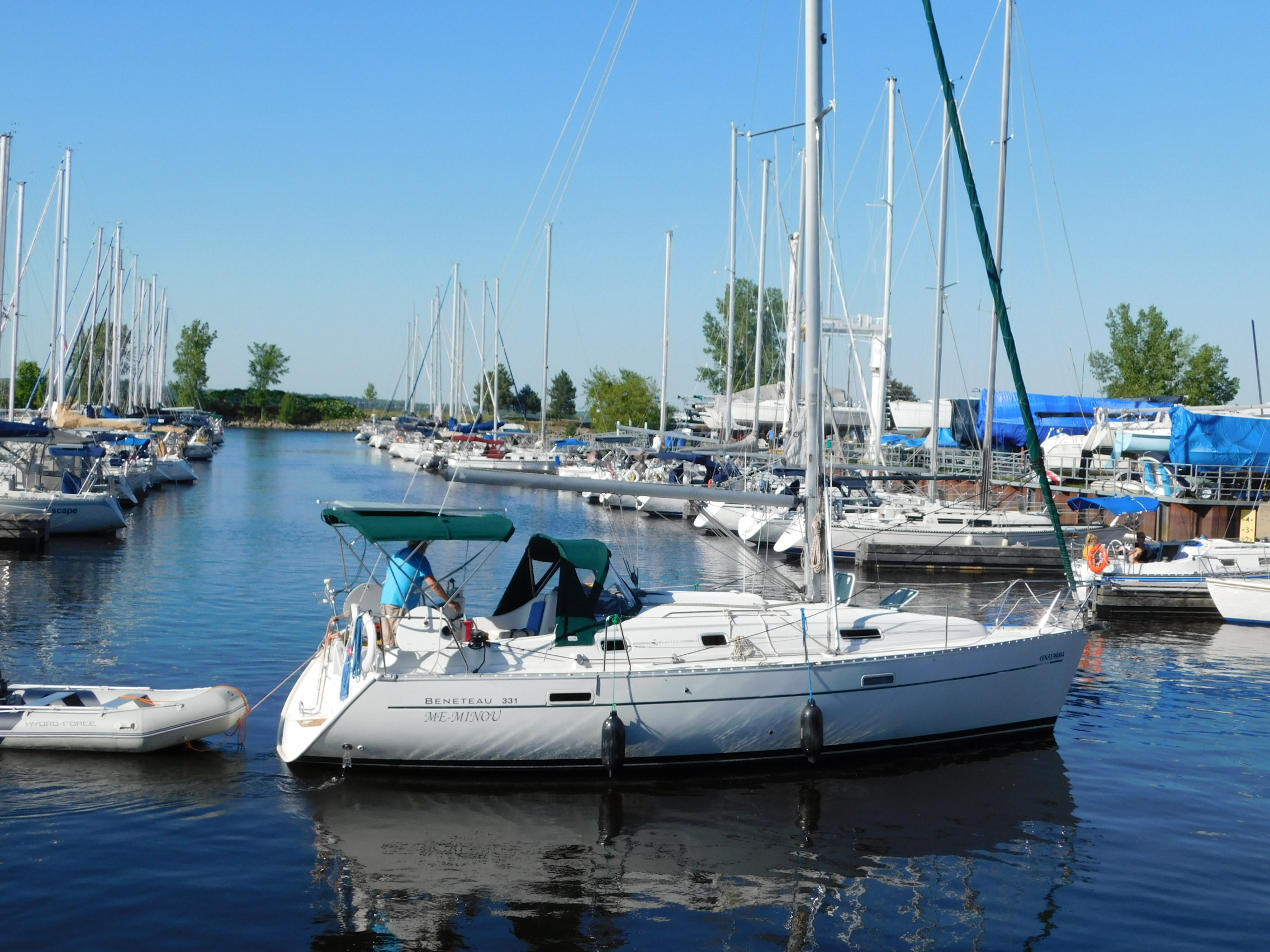 A Beneteau 331 sailboat named Me Minou.